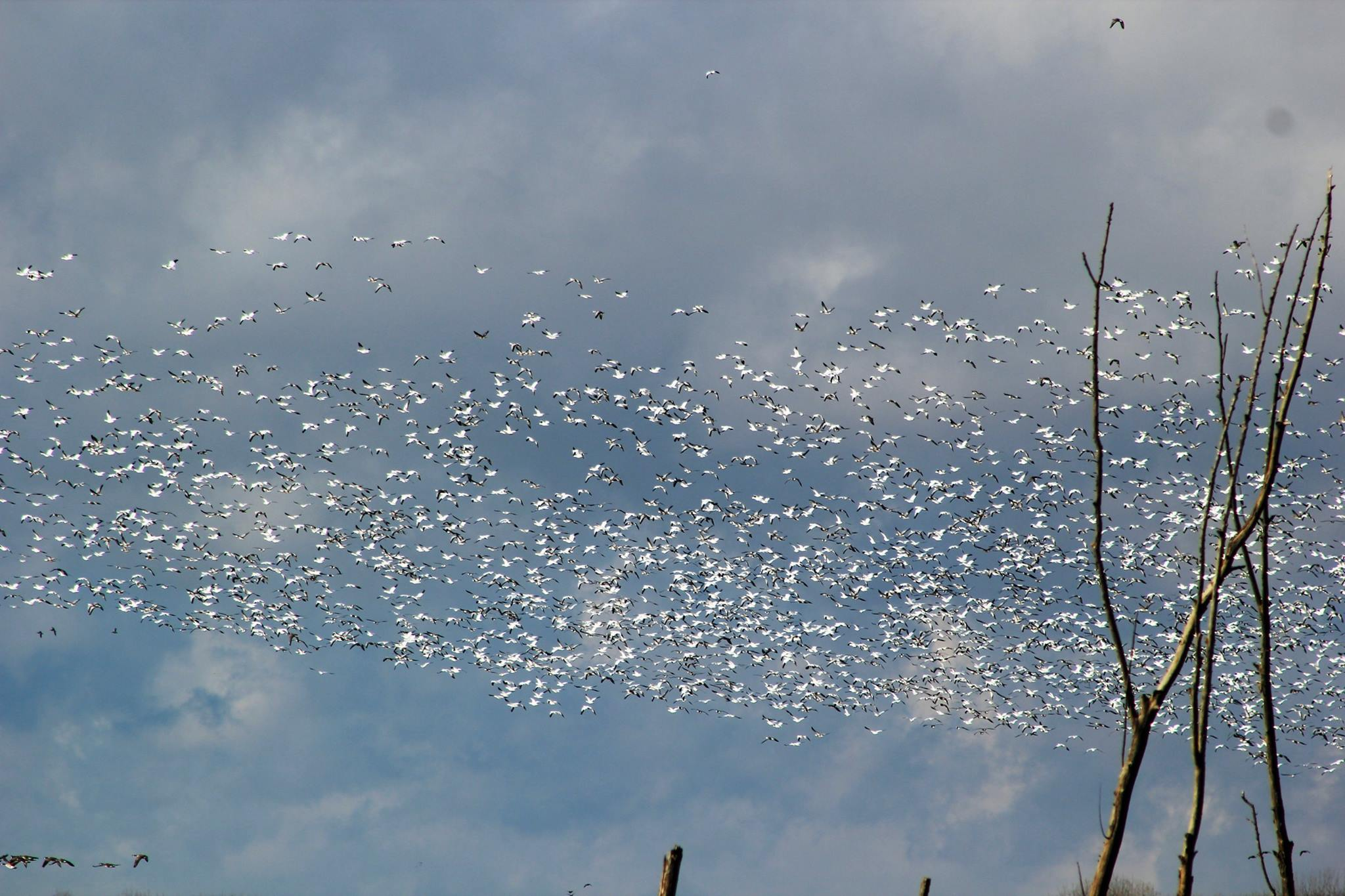 December is a great time to visit Chautauqua National Wildlife Refuge on the Illinois River. Check out all these snow geese!